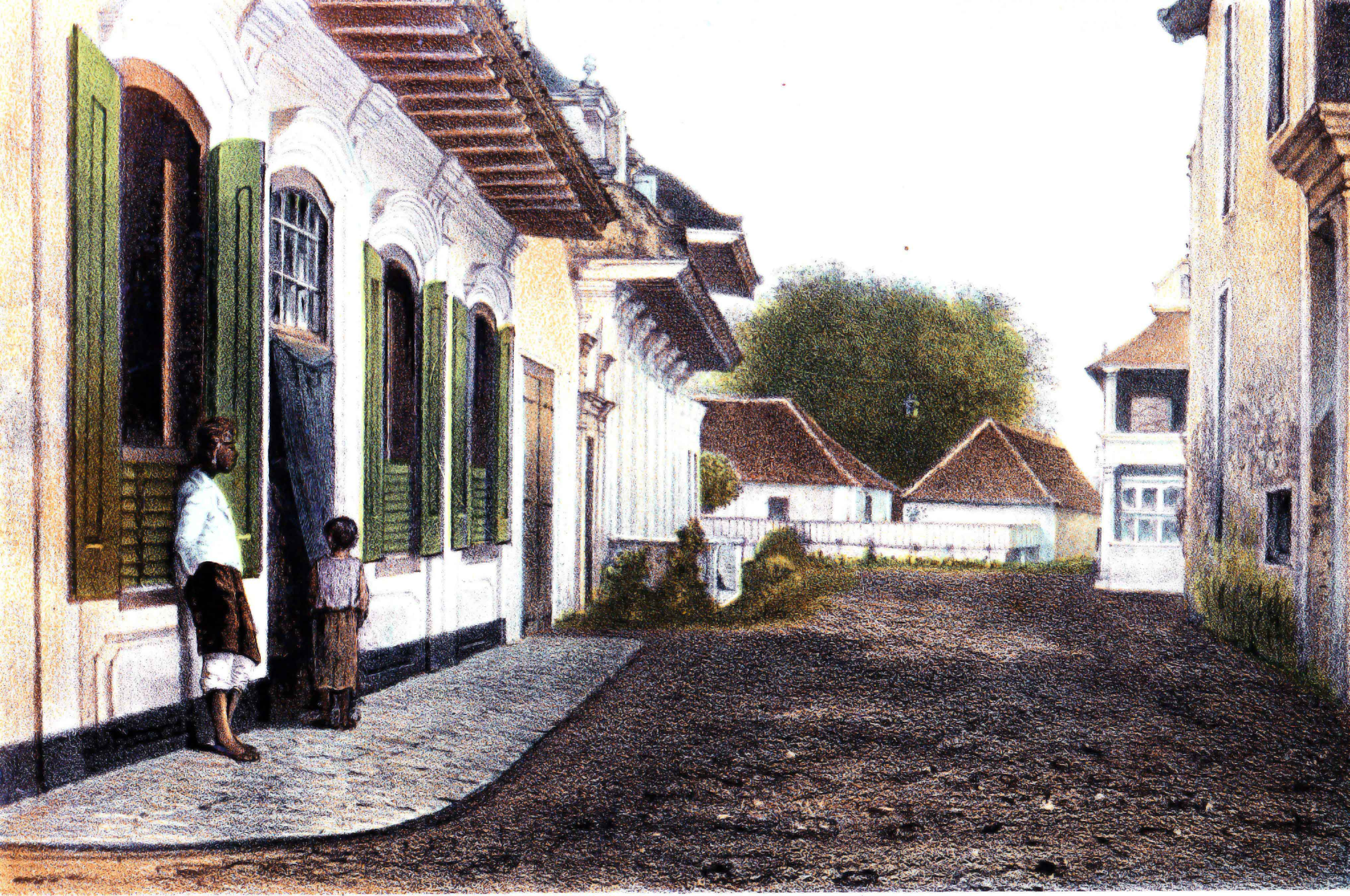 Samarang